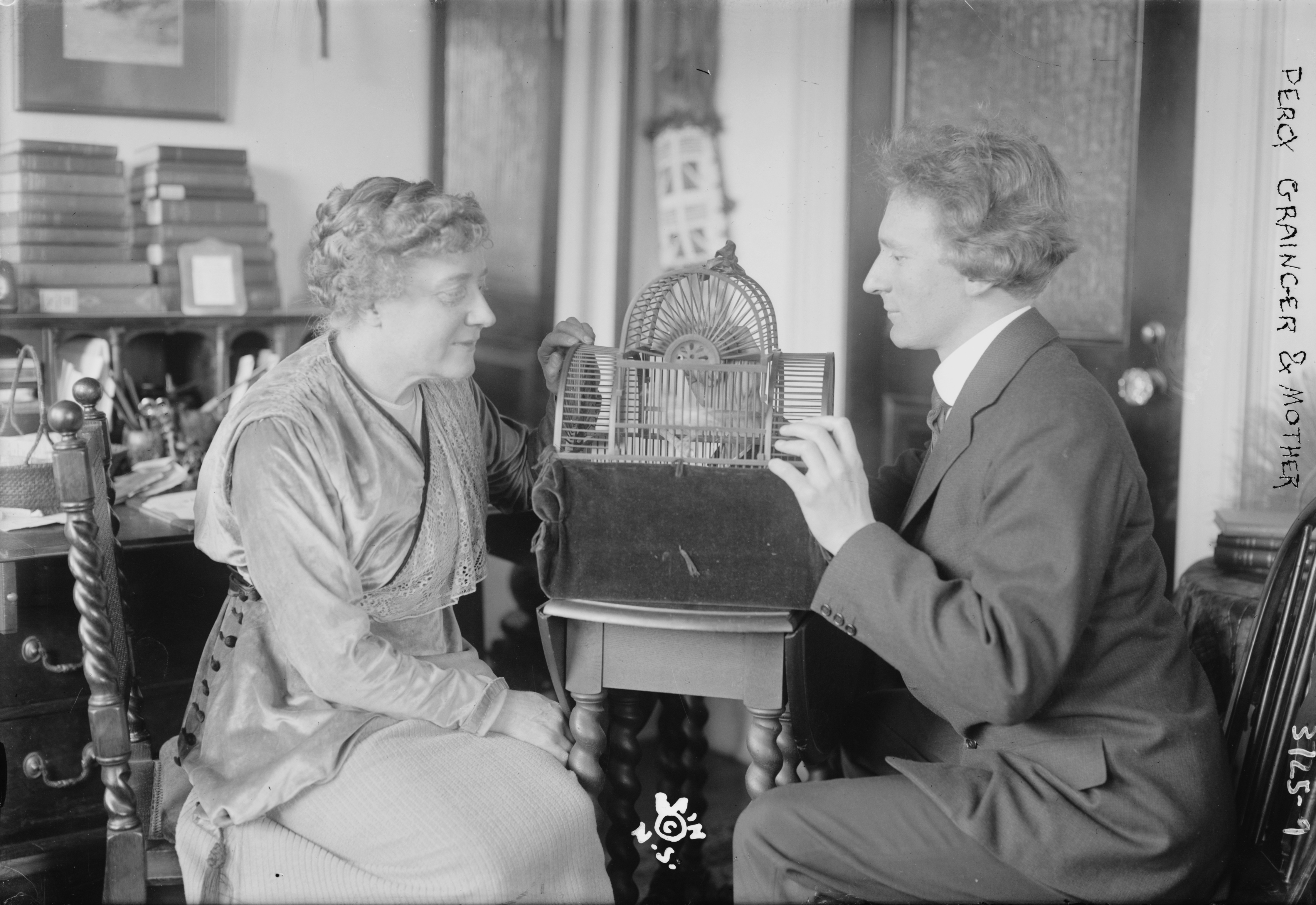 Percy Grainger (right) with his mother, Rose (1861–1922)